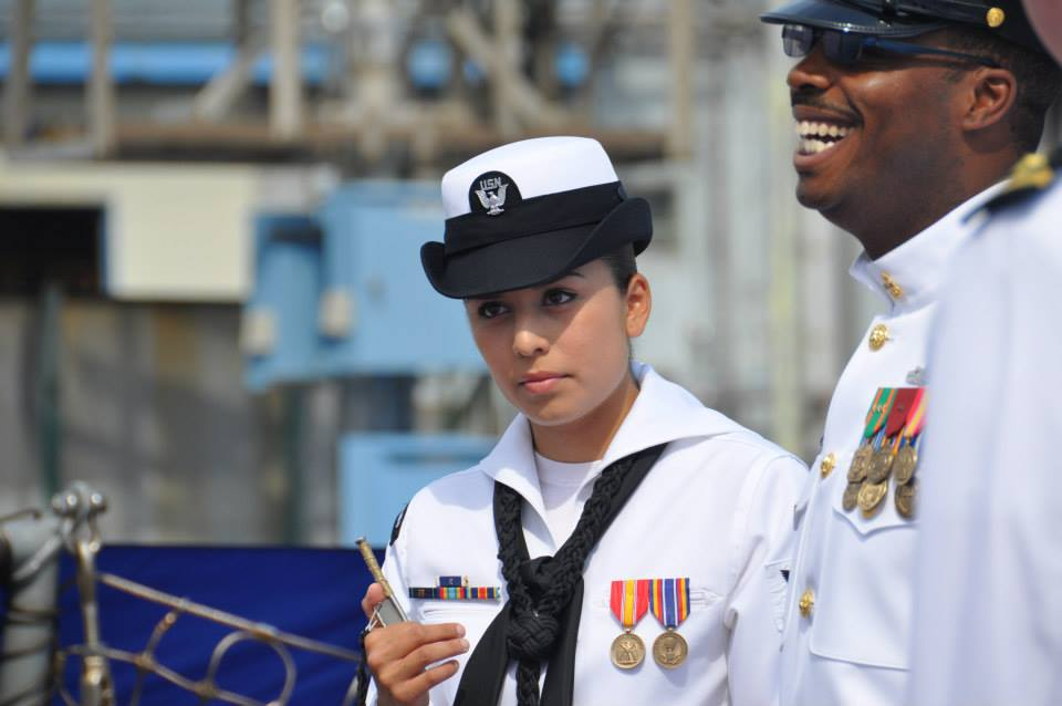 Sailor with boatswain's pipe, USS Fitzgerald (DDG-62), 2014